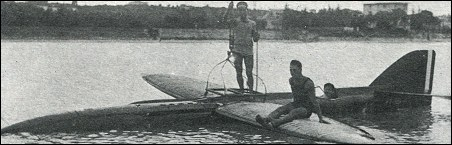 Italian Piaggio P.7 (also known as "Piaggio-Pegna P.c.7") racing seaplane afloat